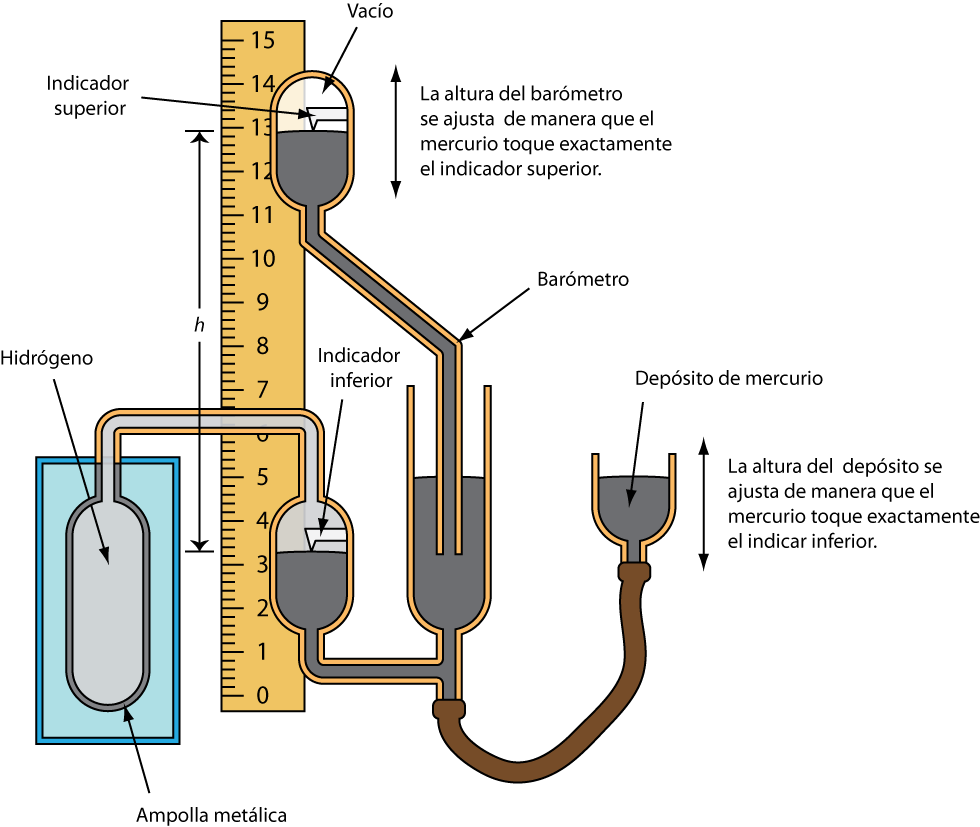 Diagram of a constant volume gas thermometer.